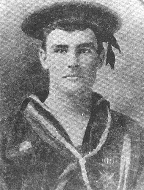 Seaman Harry H. Miller, USN. A Canadian who served in USS Nashville (Gunboat # 7) during the Spanish-American War. Both he and his brother, Willard Dwight Miller, were awarded the Medal of Honor for exhibiting "extraordinary bravery and coolness" during the 11 May 1898 telegraph cable cutting operation off Cienfuegos, Cuba. This is a halftone reproduction. Courtesy of the Army Museum, Halifax Citadel, Halifax, Nova Scotia, Canada, 1971.